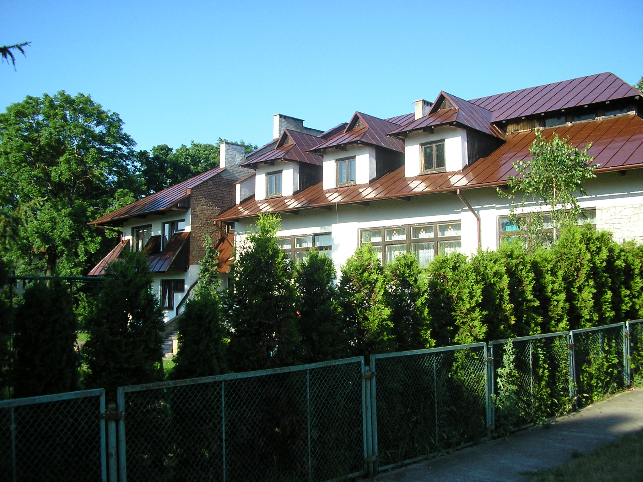 House of Sister St. Michael in Szydlowiec, Dom sióst Michaelitek